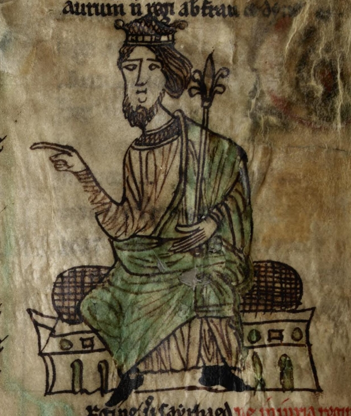 King Hywel Dda (Hywel the Good) enthroned. From a Latin copy of the Laws of Hywel Dda, which belongs to one of the National Library of Wales's foundation collections of manuscripts, the Peniarth Manuscripts.